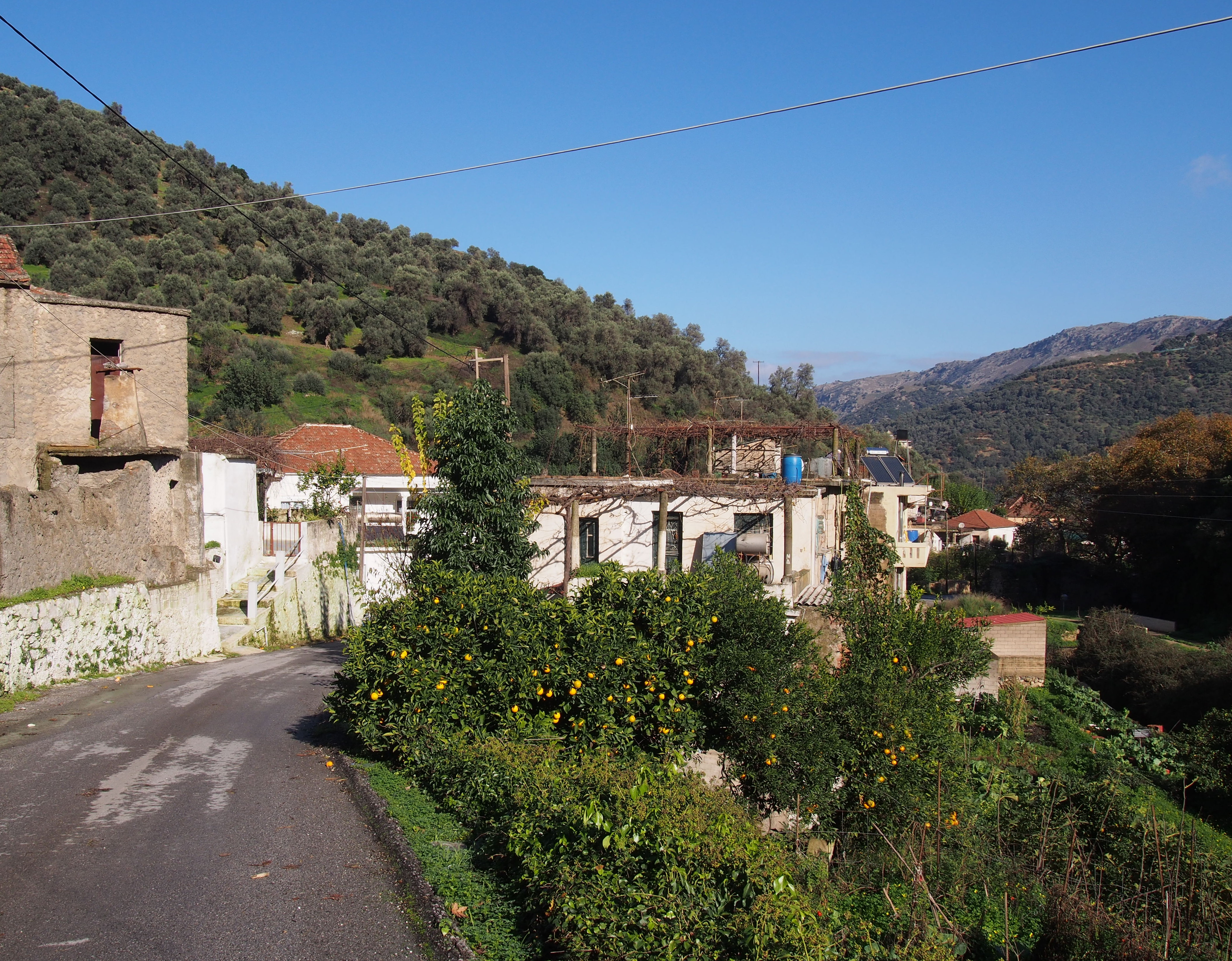 Partial view of Meskla village, located in a small valley.